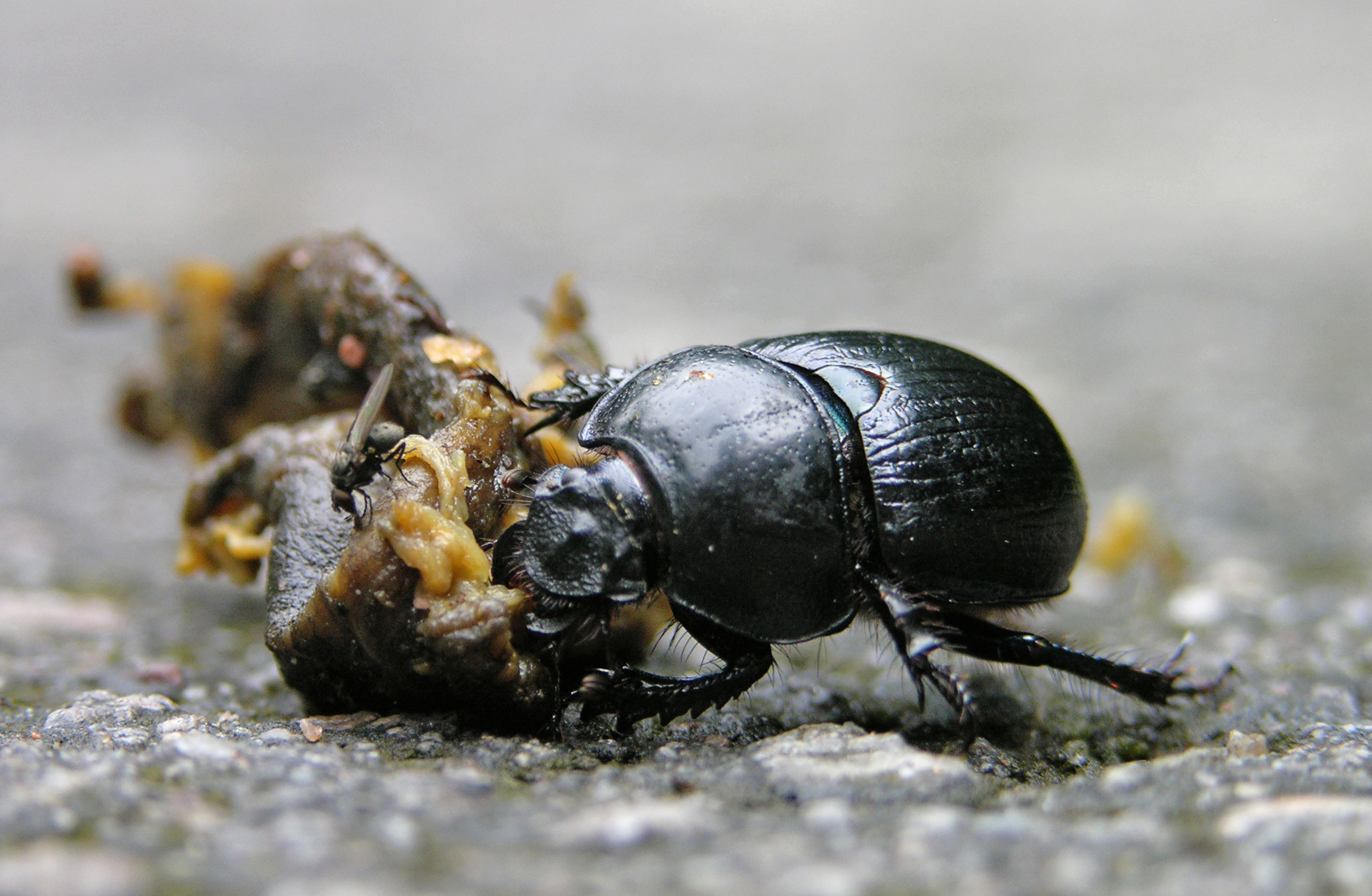 A small dung beetle (Geotrupes stercorosus), trying to move a dead slug across a road. A fly is sitting on the slug body. The picture was taken near Taintrux in Alsace, France.